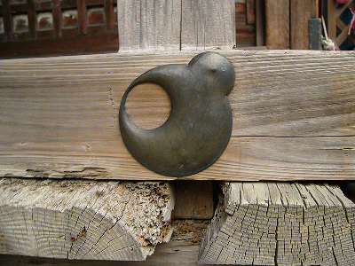 Photograph of the characteristic Koshindo/Kushindo symbol present in this case at the Koshindo Temple in Kyoto.